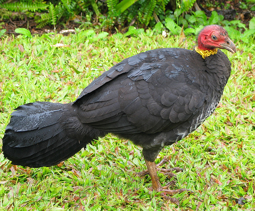 Australian Brush turkey